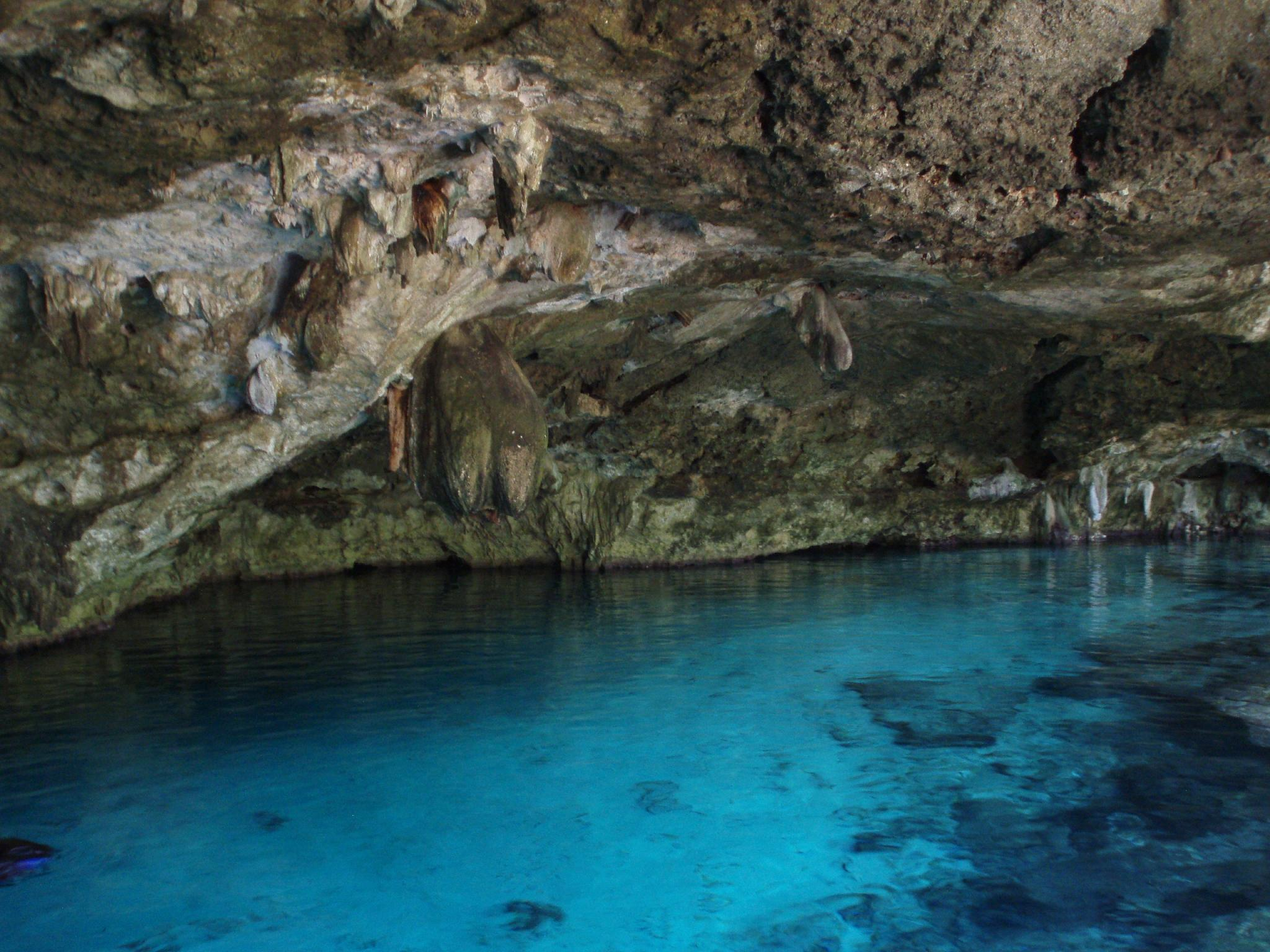 Entrance to Dos Ojos, near Tulúm in Mexico